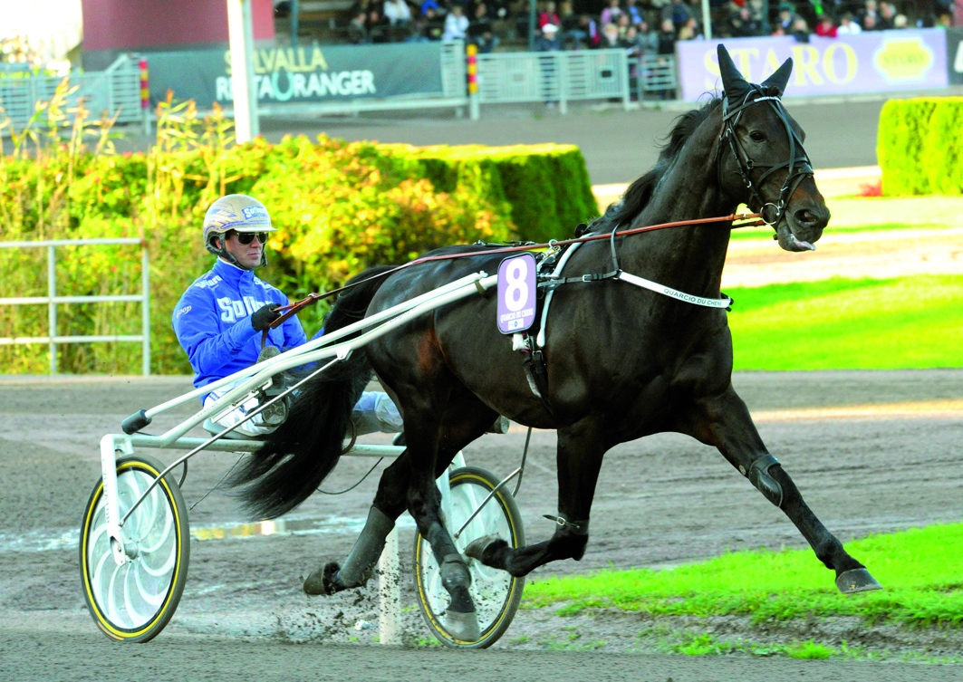 Trotting horse Quarcio du Chene and driver/trainer Björn Goop.